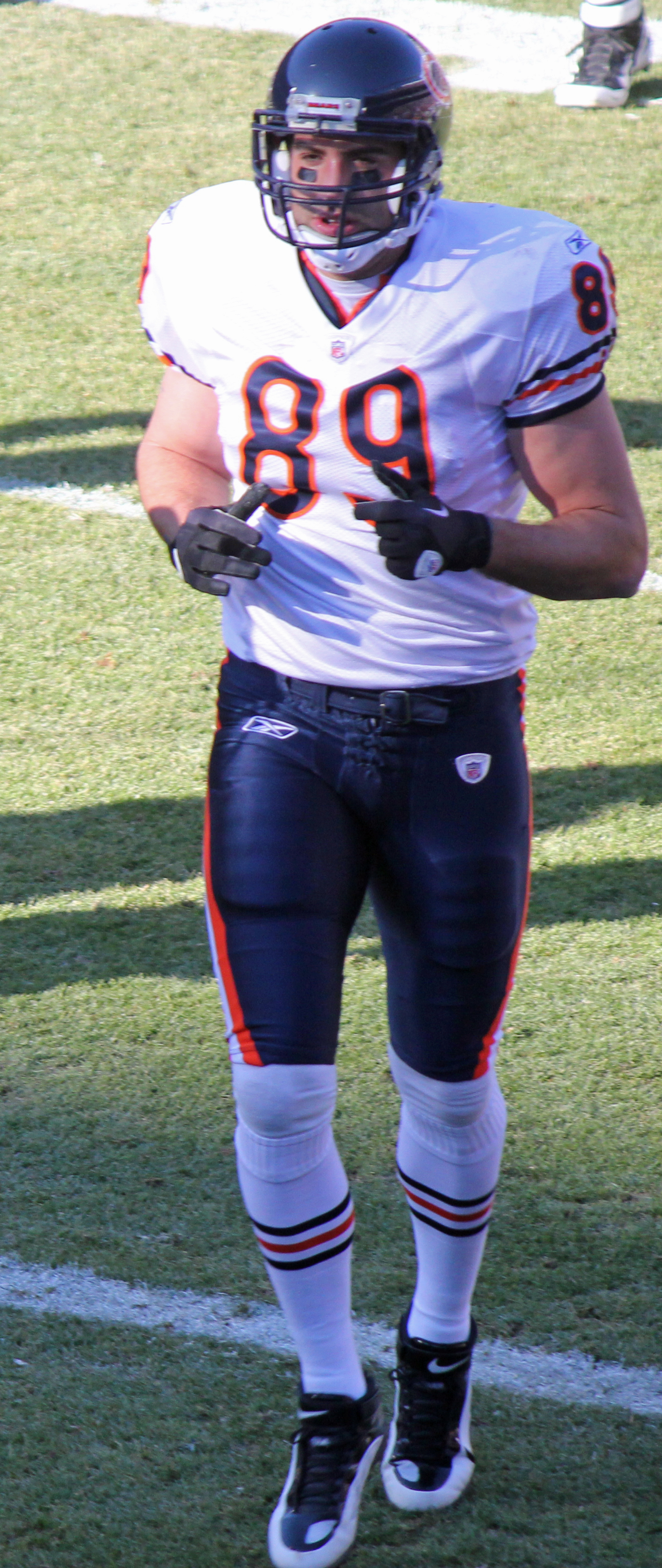 Matt Spaeth, a player on the National Football League.